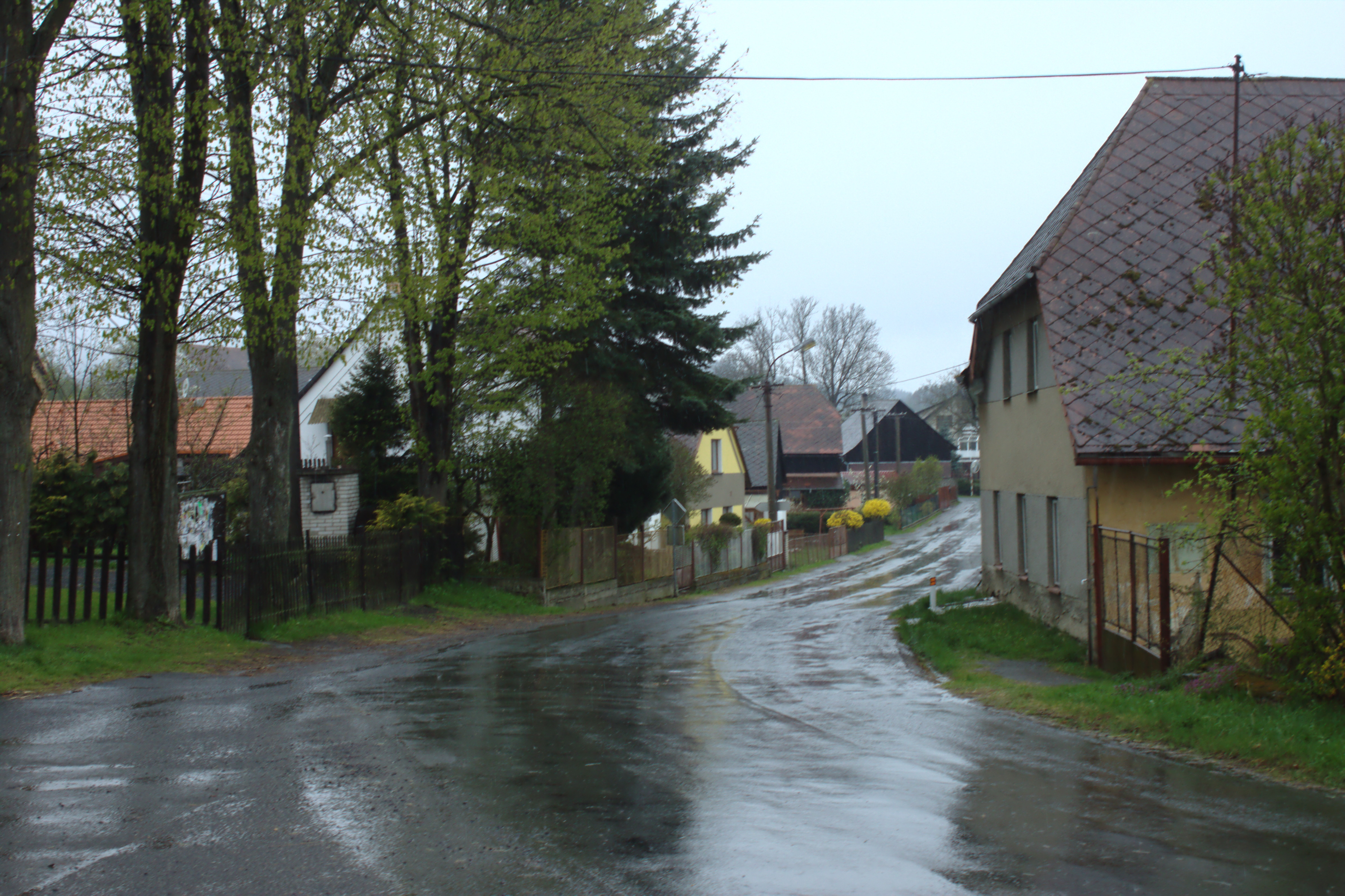 A road in the village of Viteň, Plzeň Region, CZ